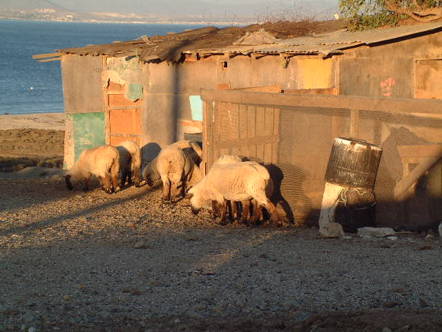 Taken by José Antonio Valdivieso in Puerto Aldea, a little location near Tongoy, Chile.